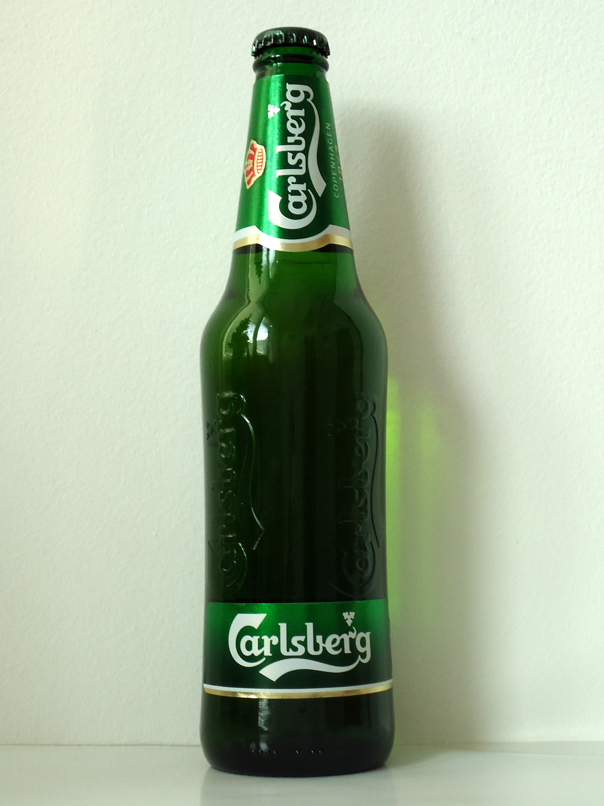 Carlsberg beer (Carlsberg Bulgaria)